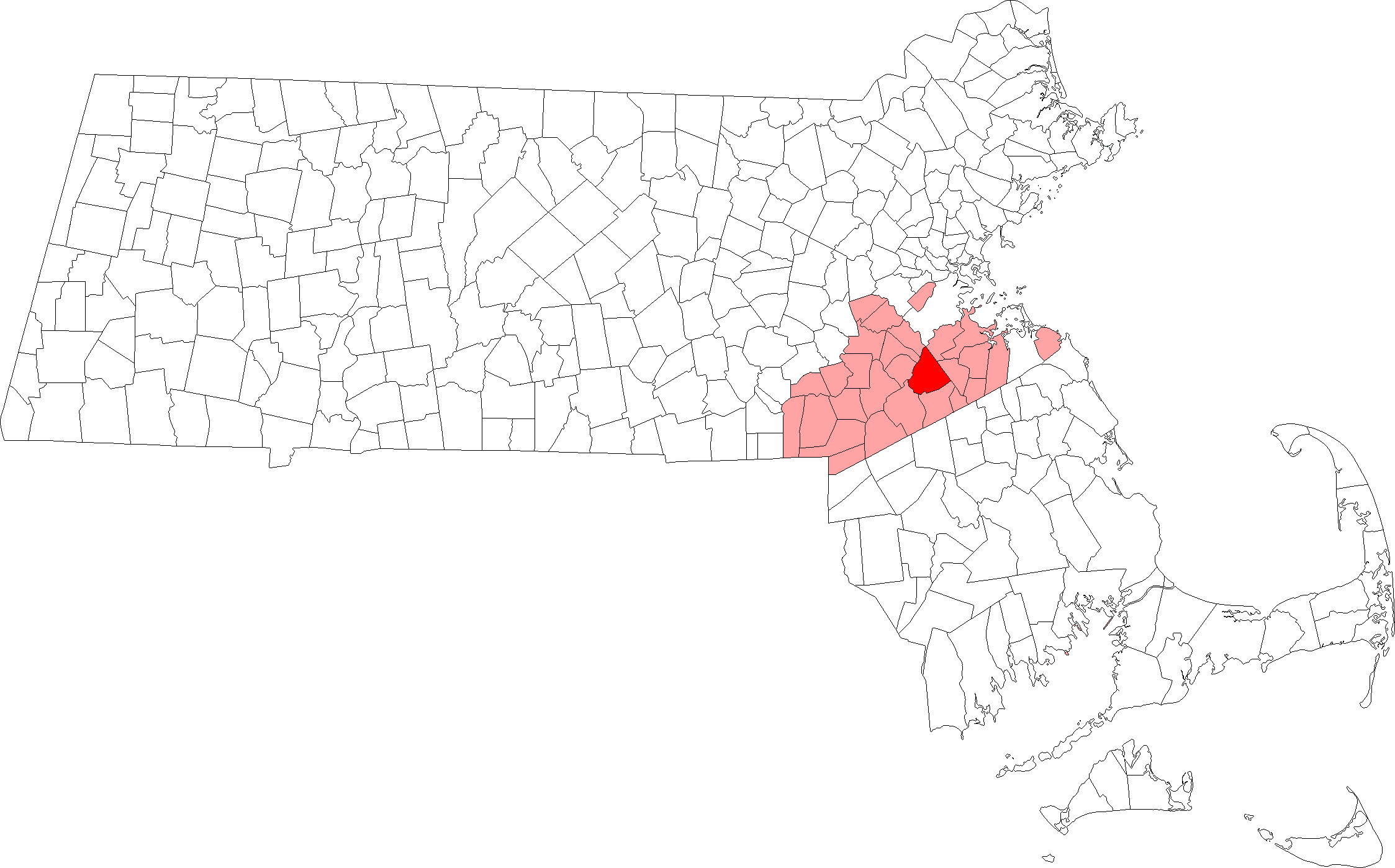 Location of Canton in Norfolk County, Massachusetts